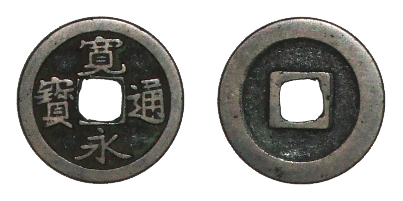 Kanei-tsuho-asakusa